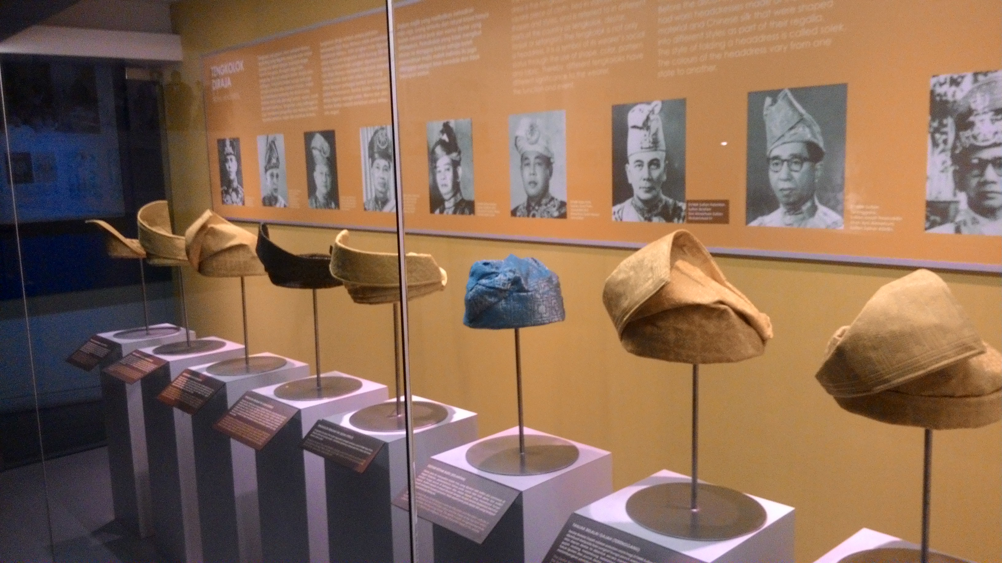 Collection of tengkolok wore by Sultan (Raja for Perlis and Yang Dipertuan Besar for Negeri Sembilan) for all malay states except Johor which wore a crown due to influence from British style.